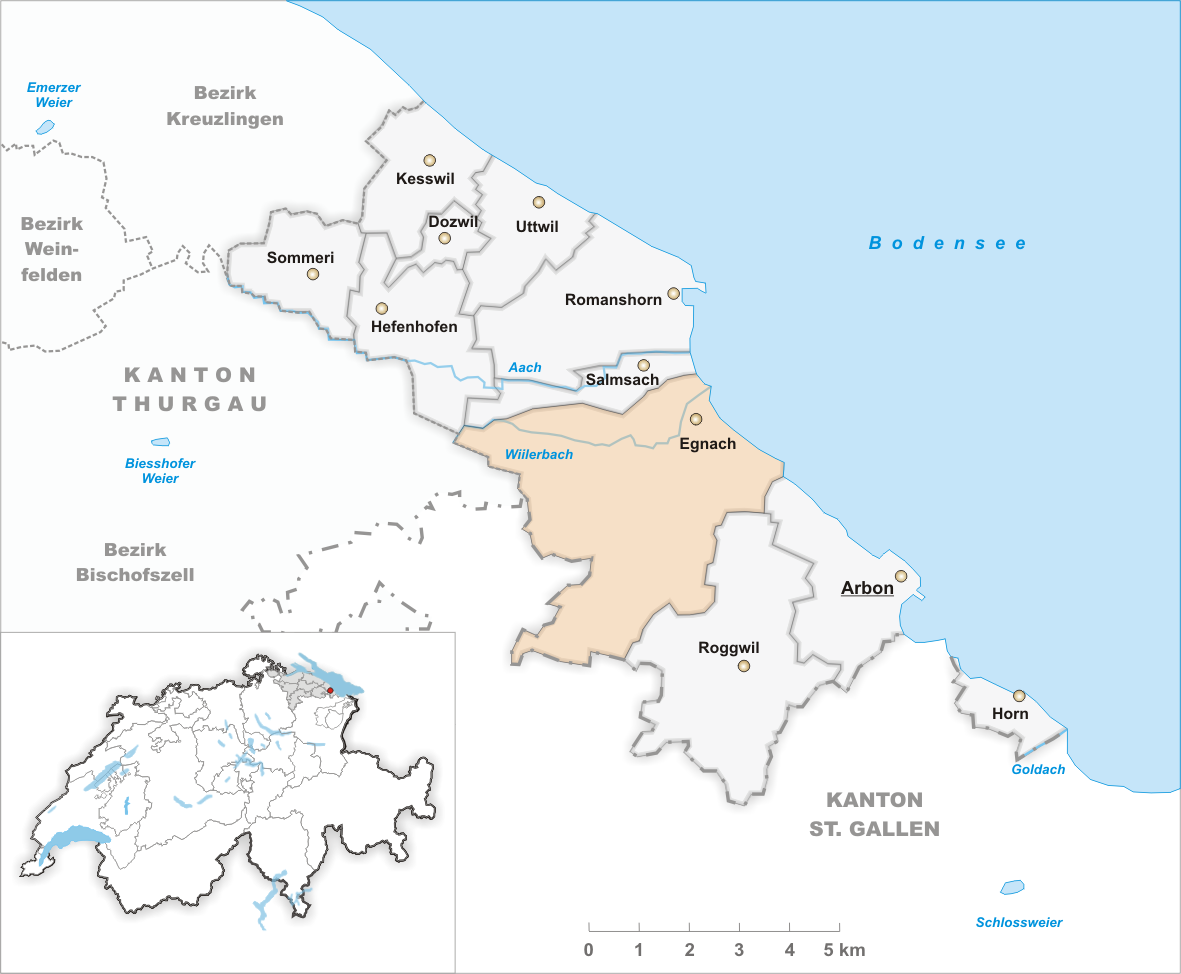 Municipality Egnach